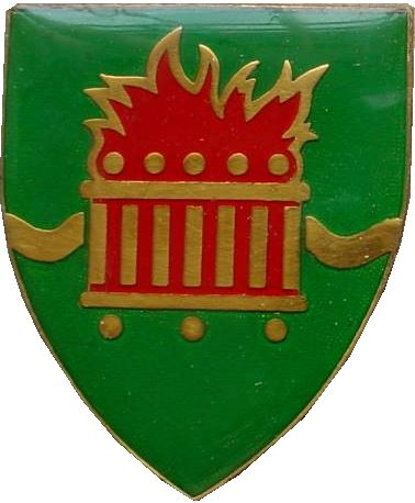 SADF Regiment Dan Pienaar Flash